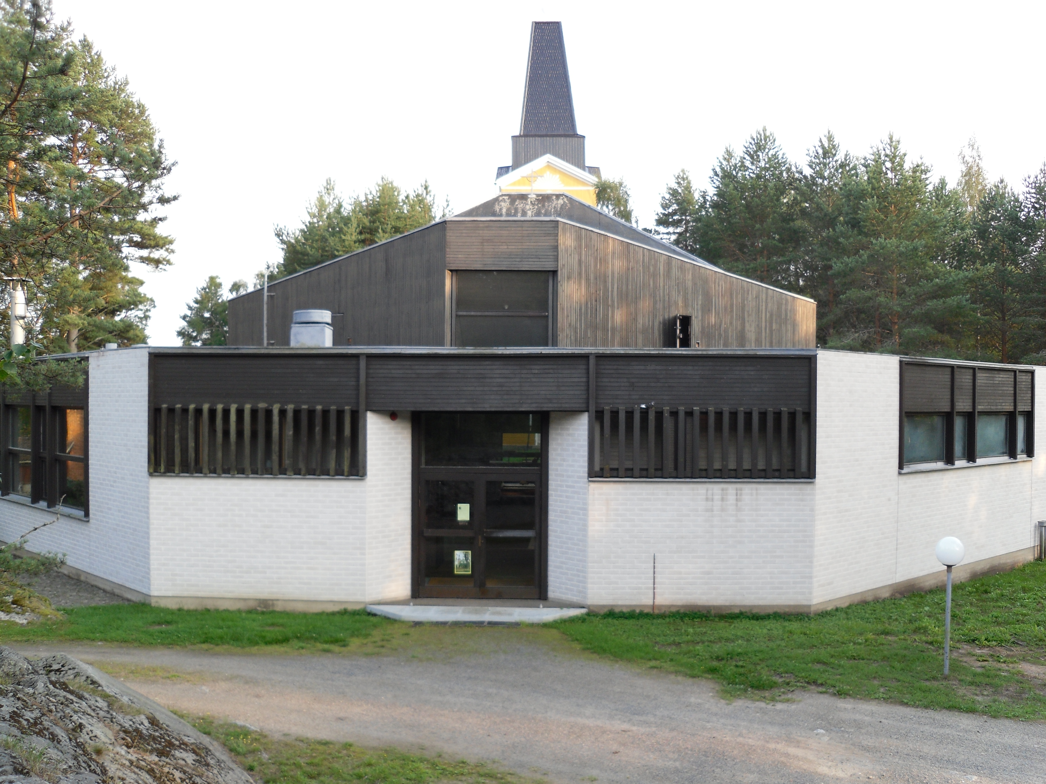 Sideby Church in Kristinestad, Finland. Completed in 1972. Architect: Erik Kråkström.